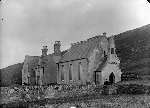 1 negative : glass, dry plate, b&w ; 12 x 16.5 cm.